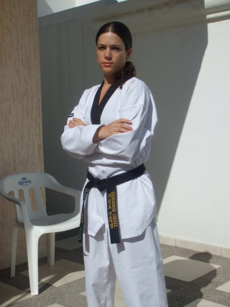 Noa Shmida, coach and former taekwando athlete